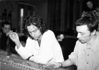 Chris Seefried and Robbie Adams at Hit Factory mixing Chris Seefried and Gary DeRosa at Magic Shop NYC mixing "Everybody" 1994